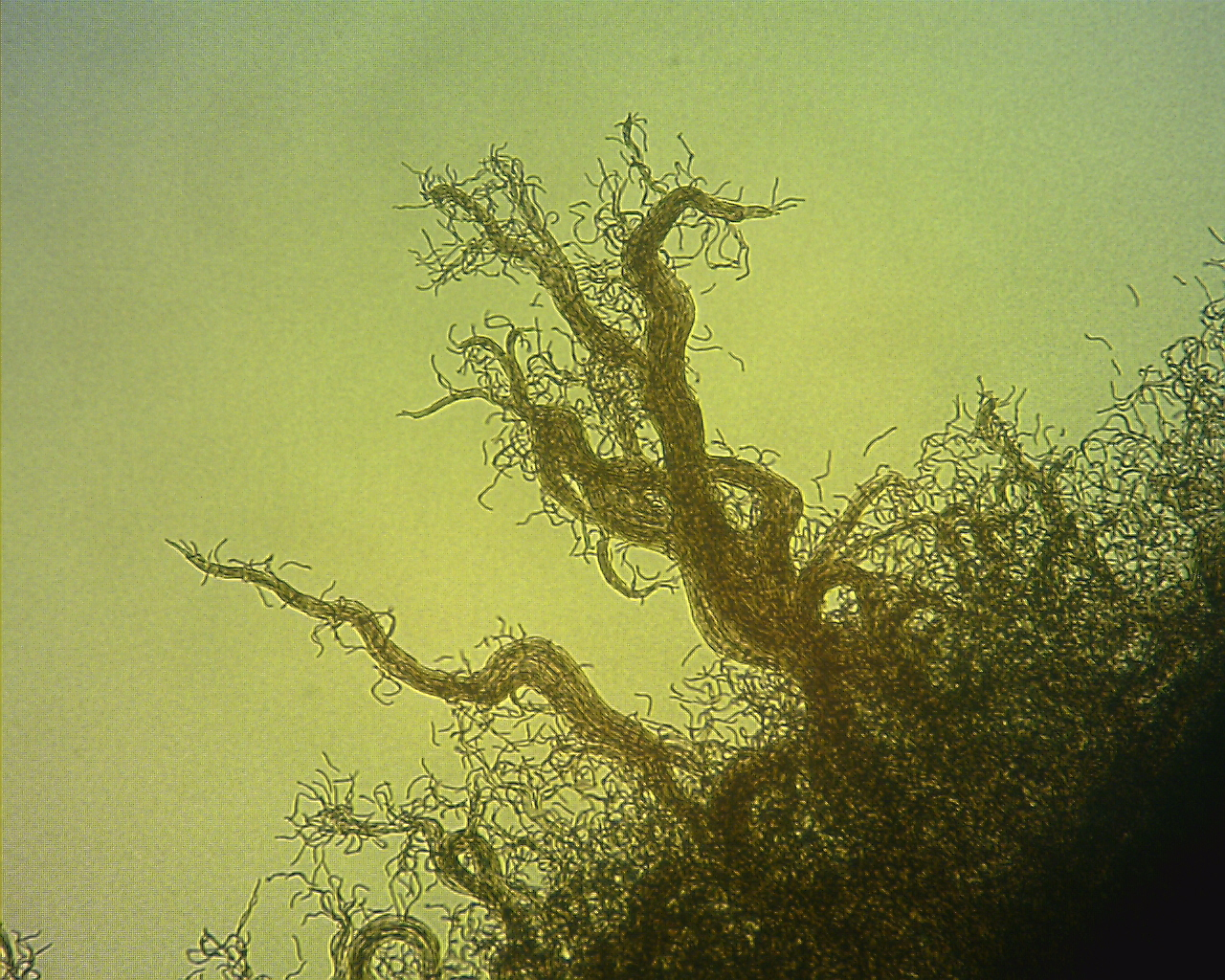 Nostoc-genus cyanobacterium growing on Z8 agar medium exhibiting vegetative filaments and hormogonia. 40x magnification.